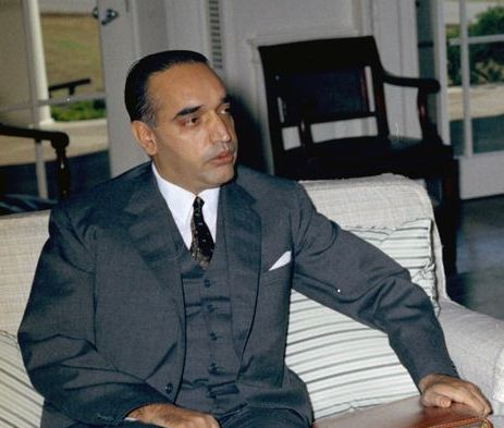 President John F. Kennedy (in rocking chair) meets with Mohammad Hashim Maiwandwal, Ambassador of Afghanistan. Oval Office, White House, Washington, D.C.